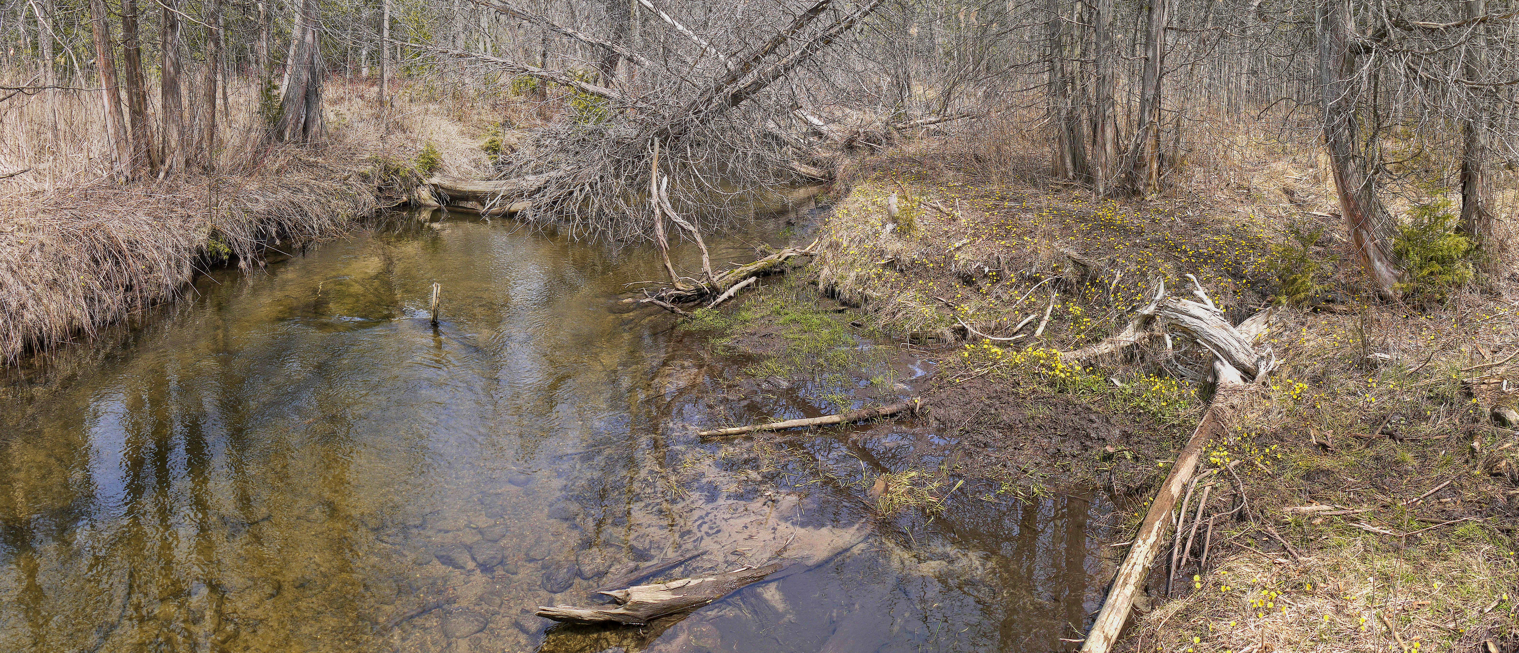 Headwaters of the West Duffins Creek. This photo was taken in a protected area in Canada, Wikidata item Rouge National Urban Park (Q26810464)